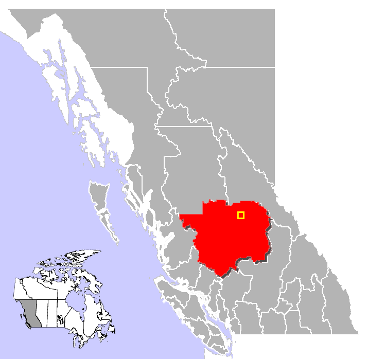 Location of Quesnel, Cariboo District, BC